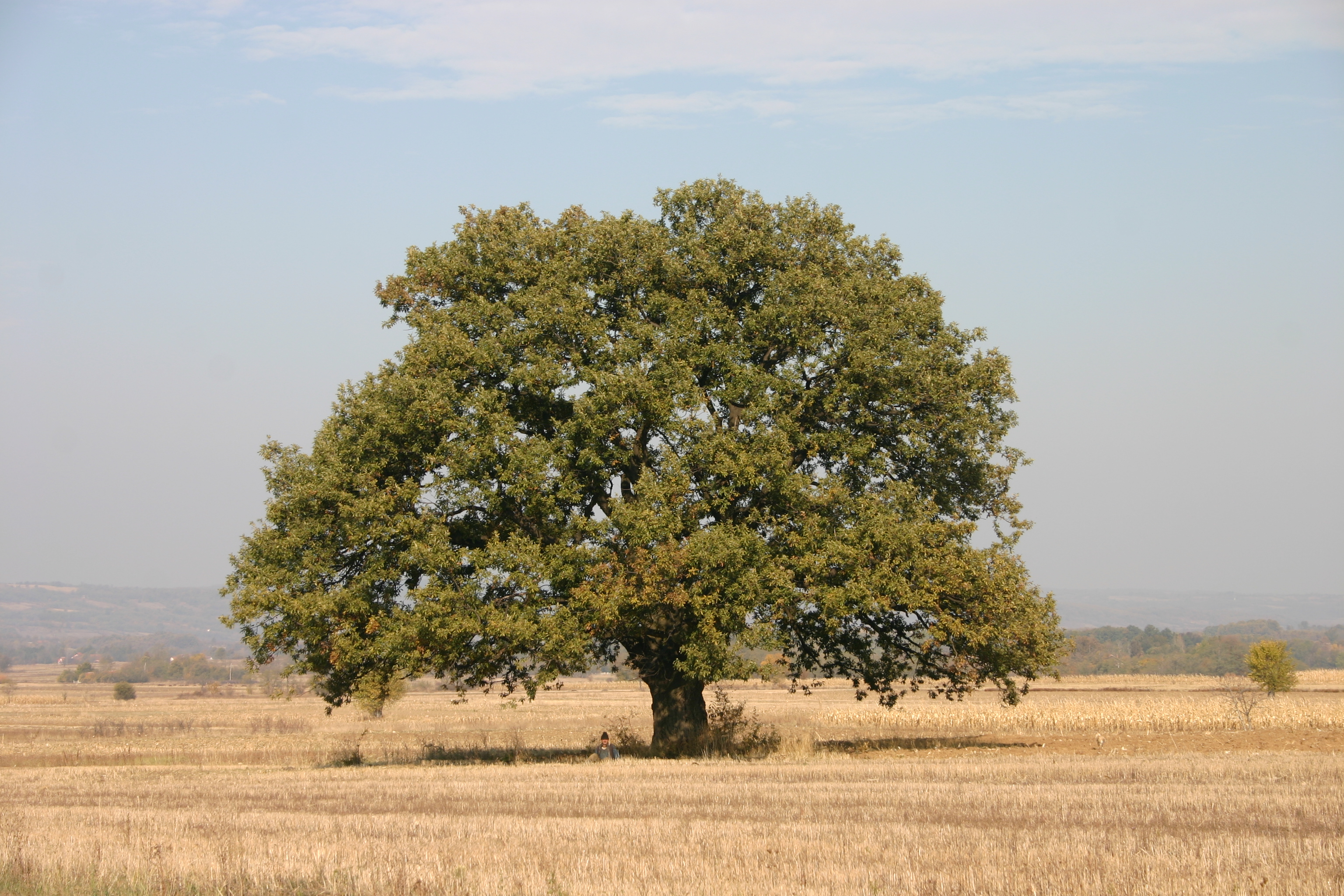 Zapis - Sacred Tree in village Vezičevo, municipality Petrovac na Mlavi, Braničevo District, Serbia